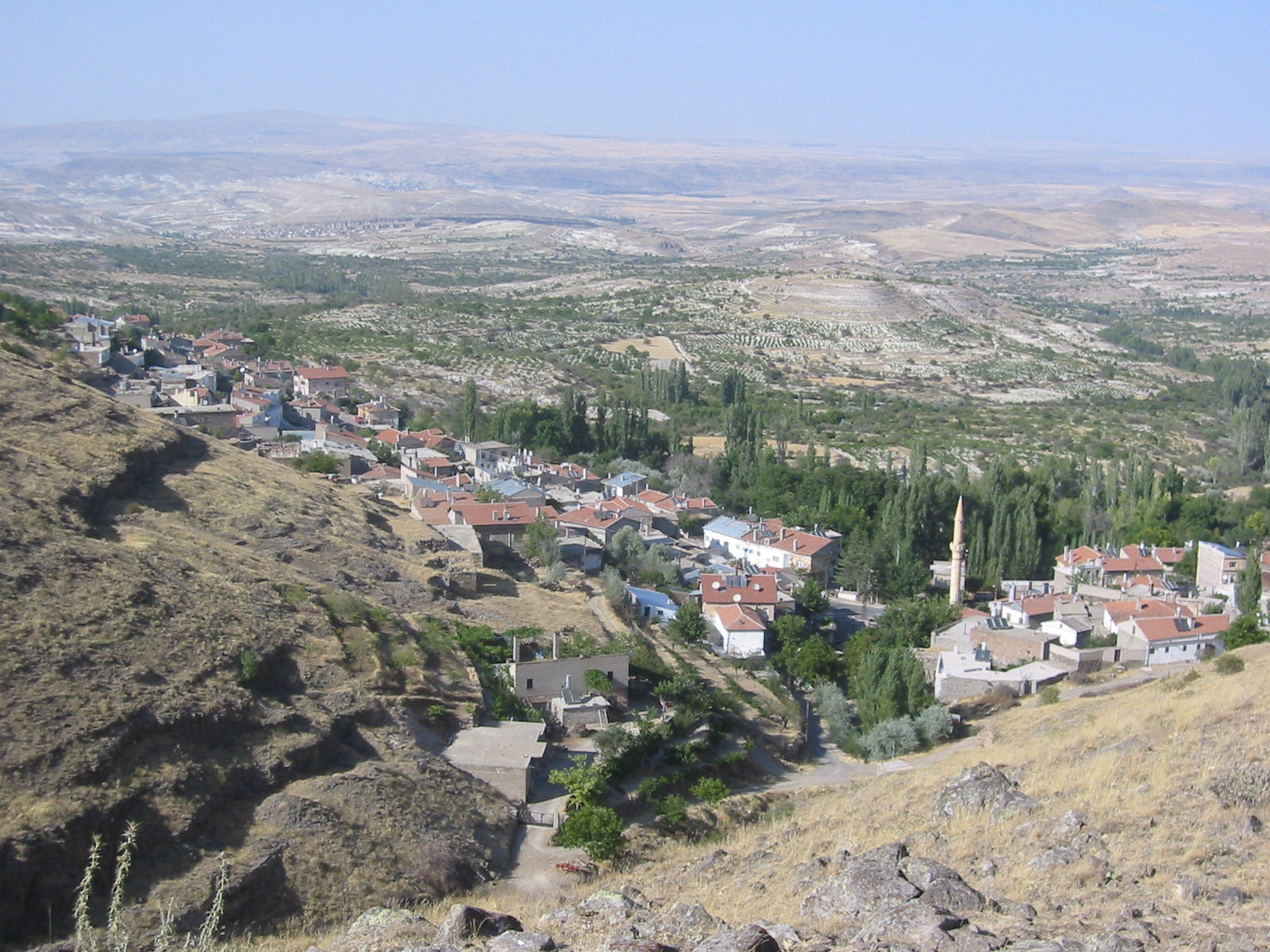 View of AksalurTürkçe: Aksalur - genel görünütüsü